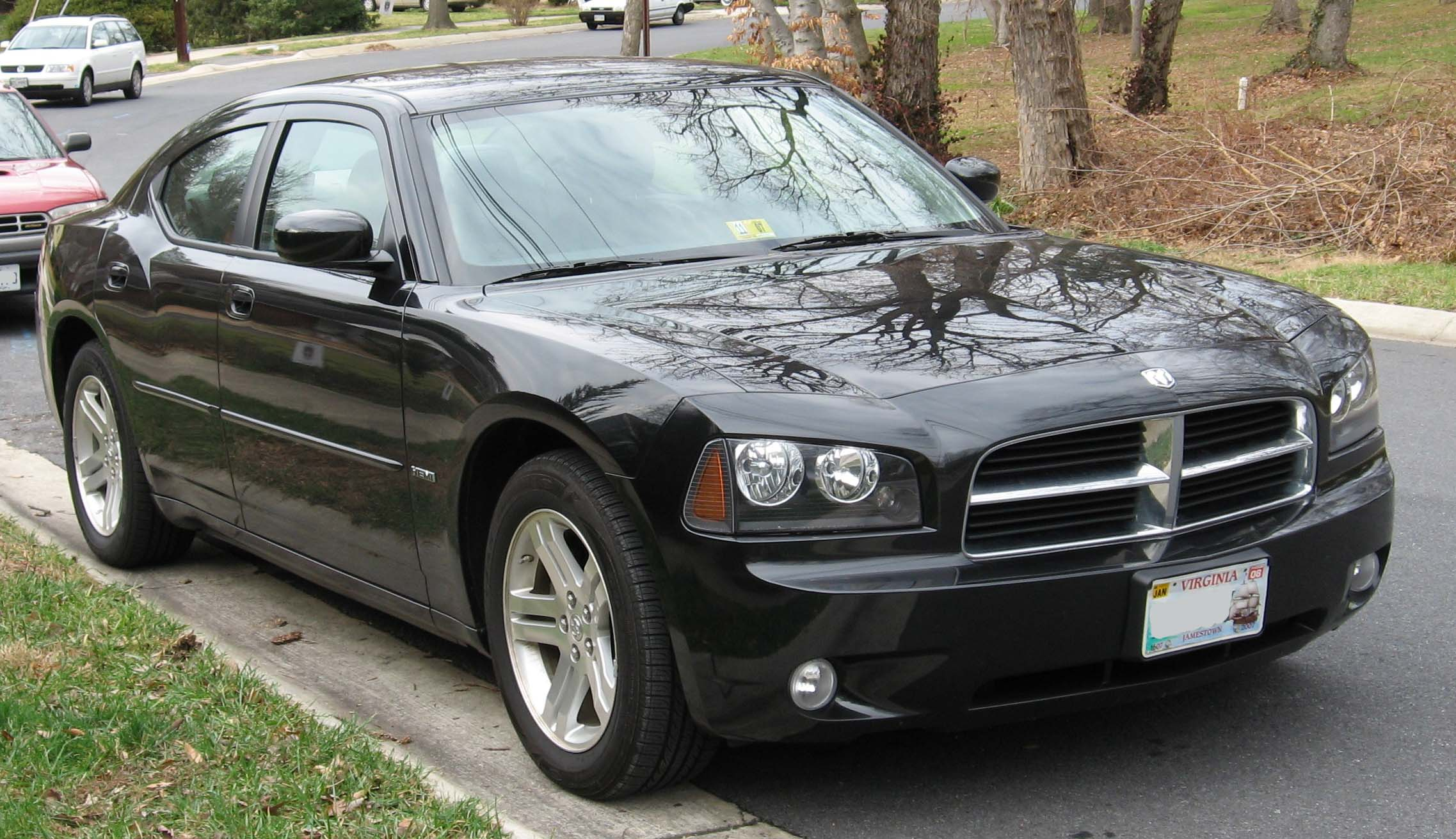 2006-2007 Dodge Charger RT photographed in USA.